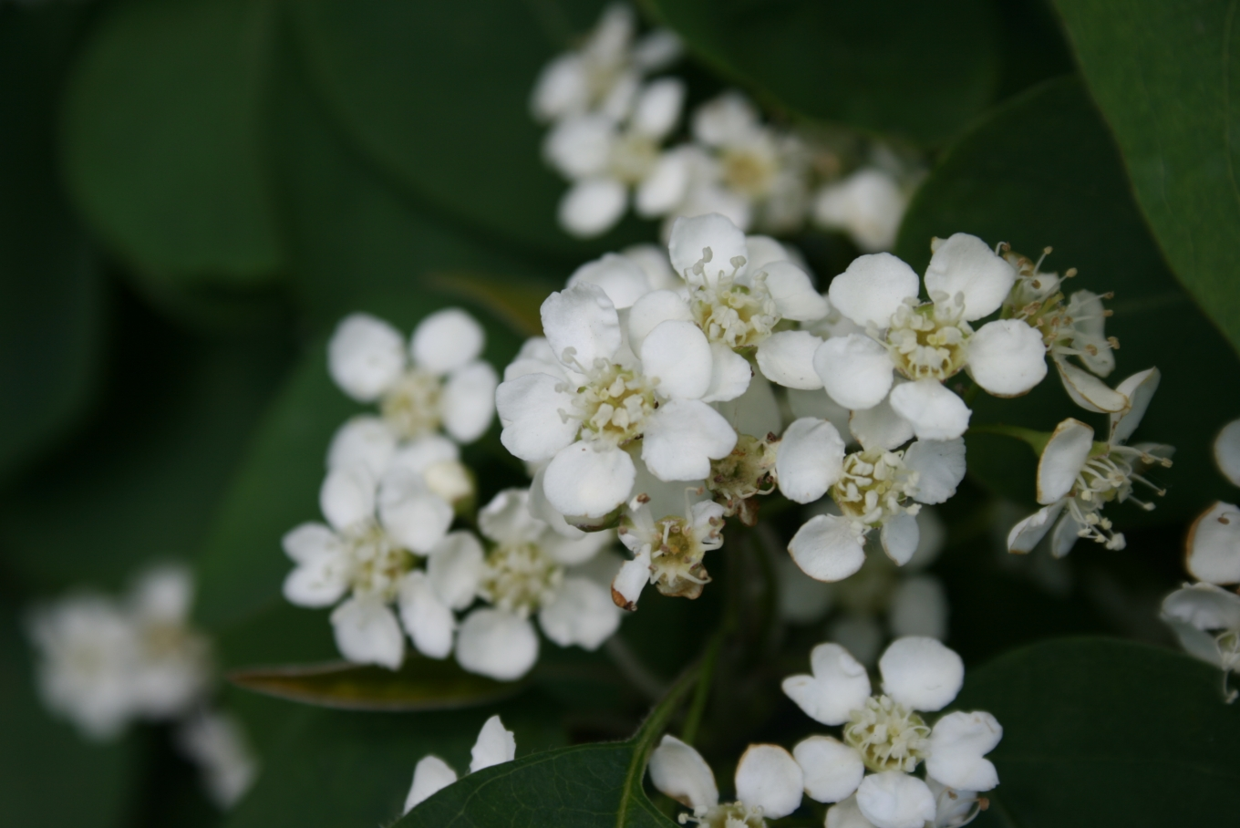 Cotoneaster multiflorus: Flowers.